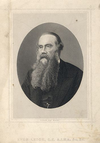 Evan Leigh (21 December 1810 – 2 February 1876) was an author, inventor, engineer and manufacturer of cotton spinning equipment. His invention of the twin screw for steam ships was patented in July 1849 and taken up both for mercantile and British Navy fleet.